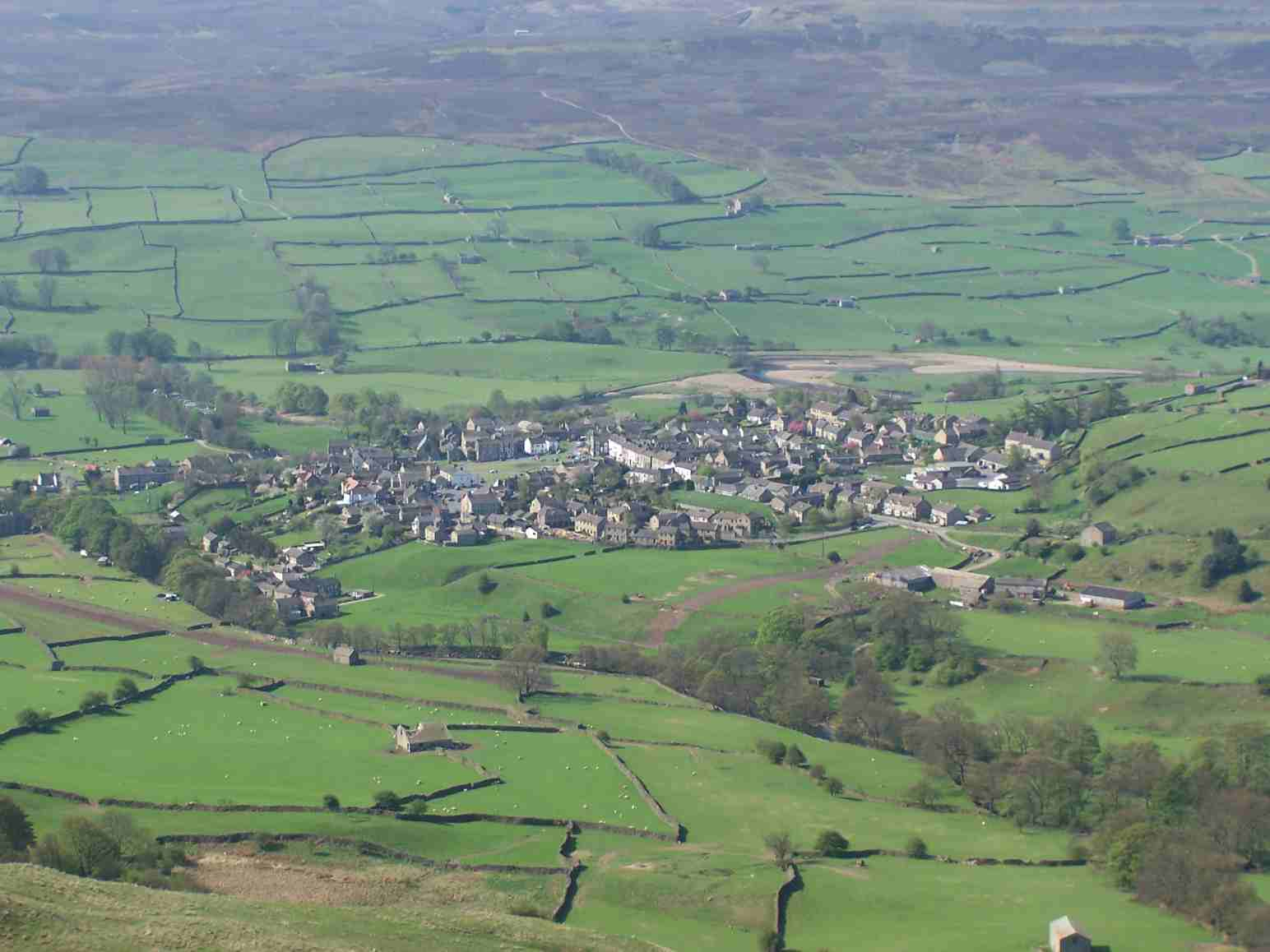 The town of Reeth in North Yorkshire, England, seen from Fremington Edge